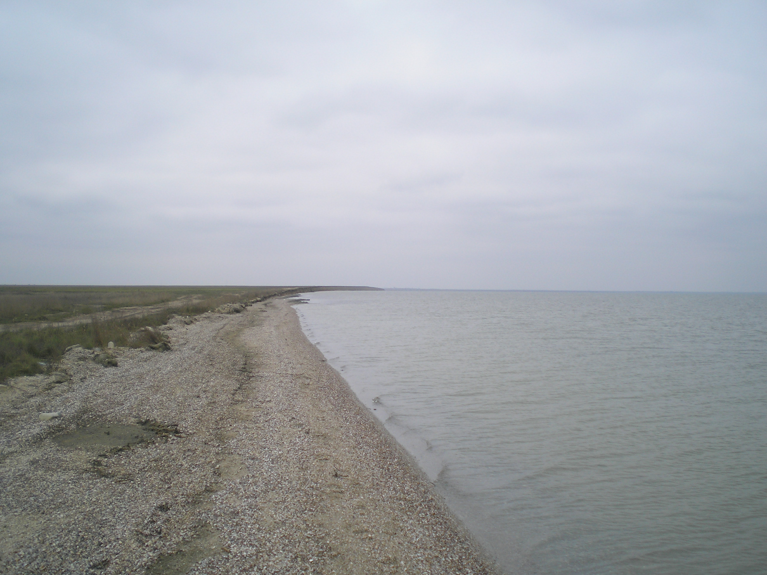 Southern coast of the Shahany Lagoon, Ukraine